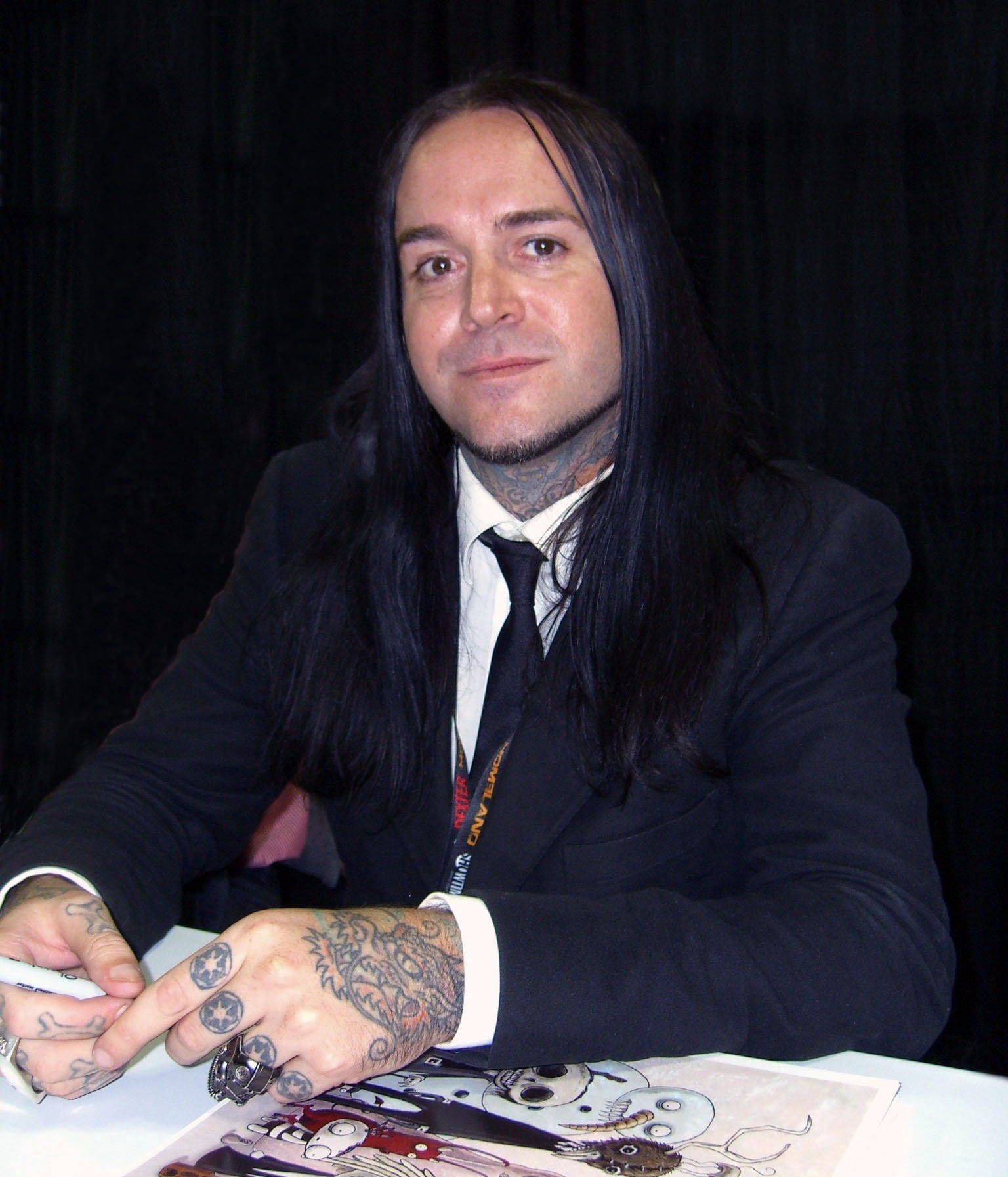 Magician and comics creator Roman Dirge at the New York Comic Con, October 15, 2011. This photo was created by Luigi Novi. It is not in the public domain, and use of this file outside of the licensing terms is a copyright violation.